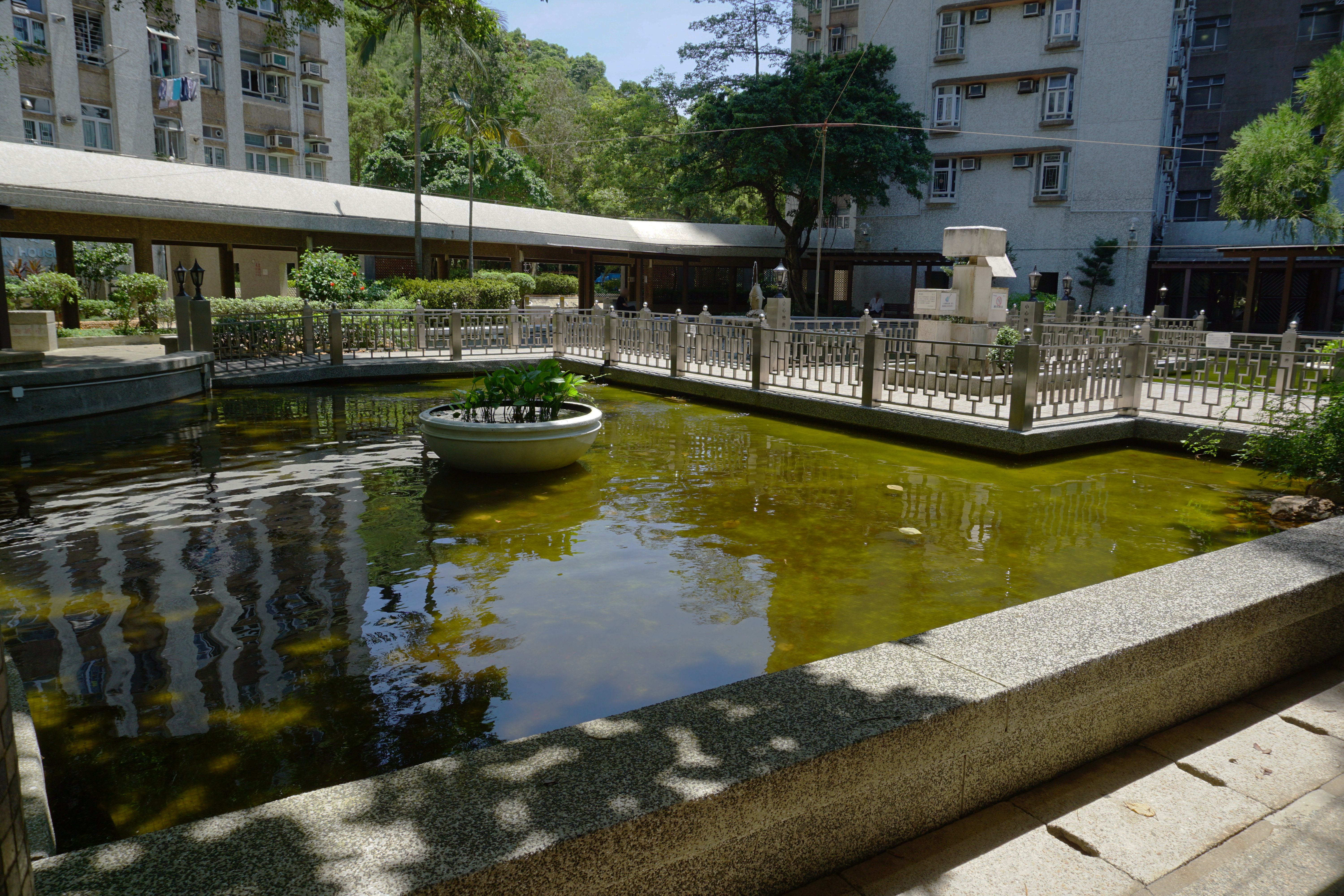 Ching Wah Court in Tsing Yi, Hong Kong.